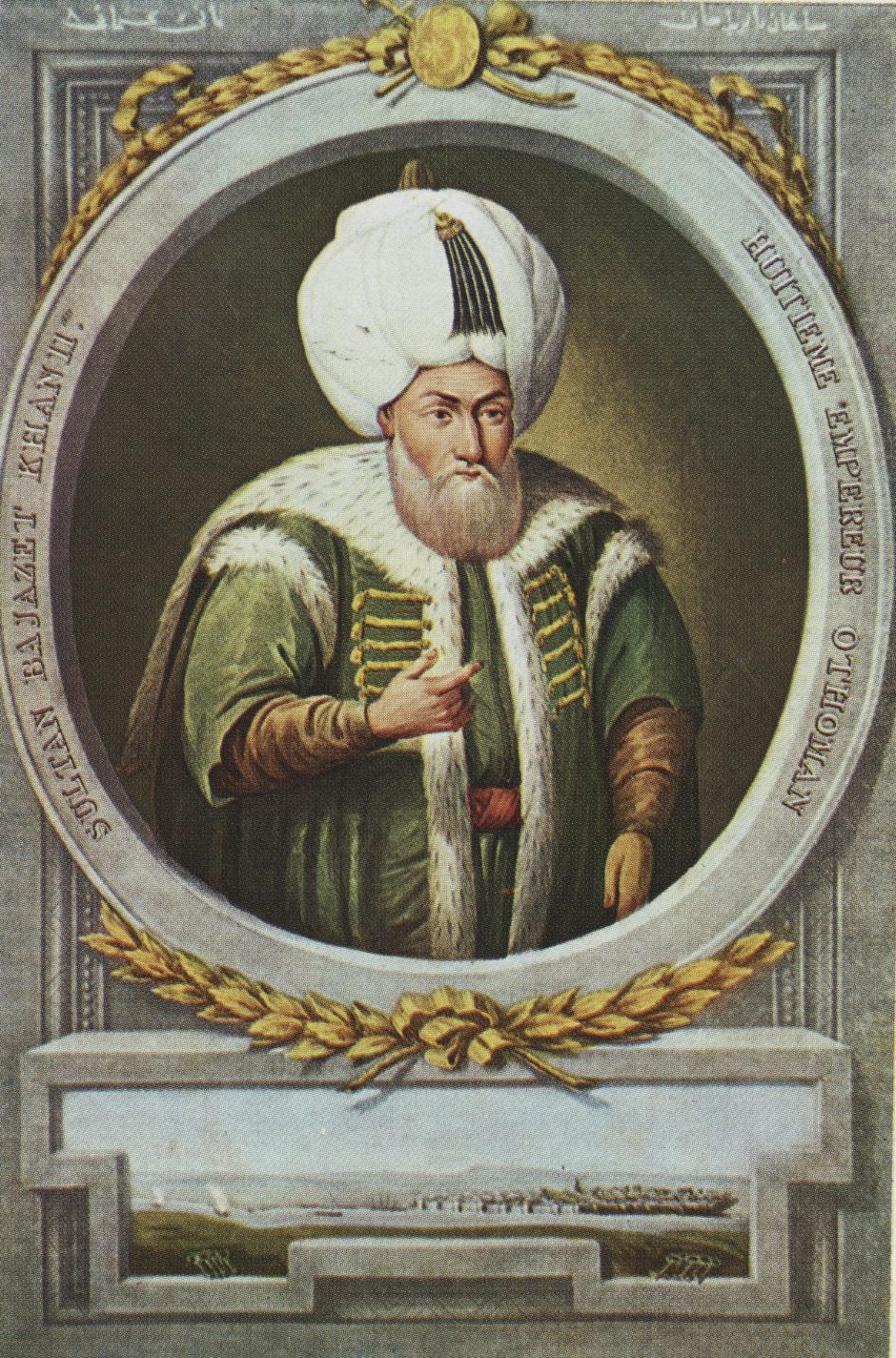 Bajazet II